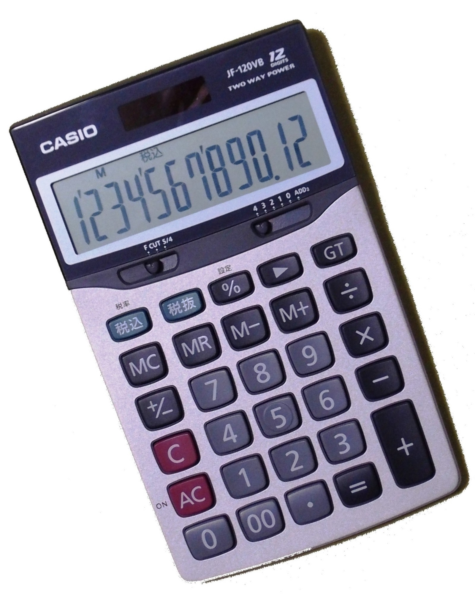 Casio calculator JF-120VB